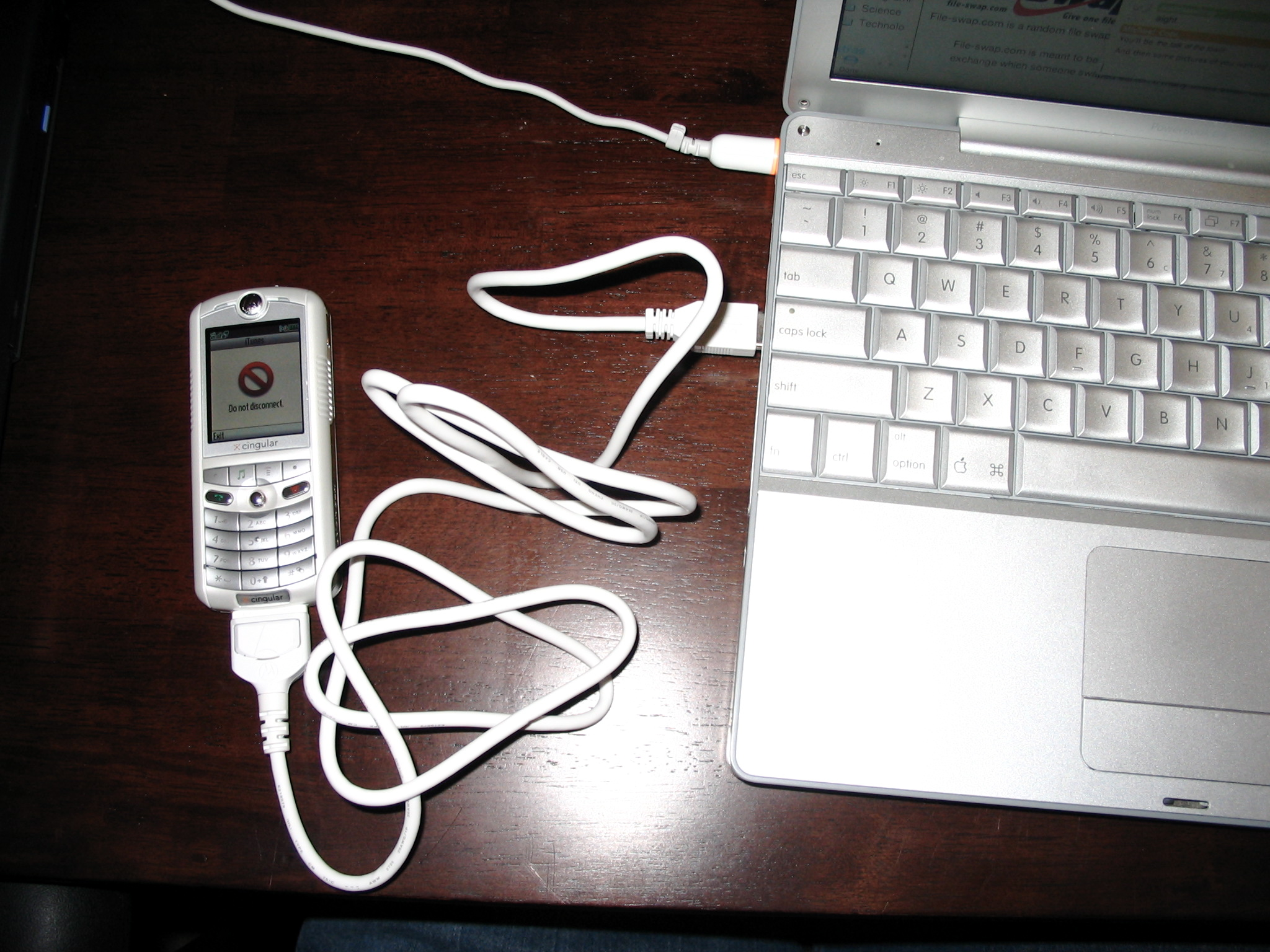 A Motorola ROKR cell phone being connected to an Apple Powerbook to utilize the phone's iTunes capabilities.